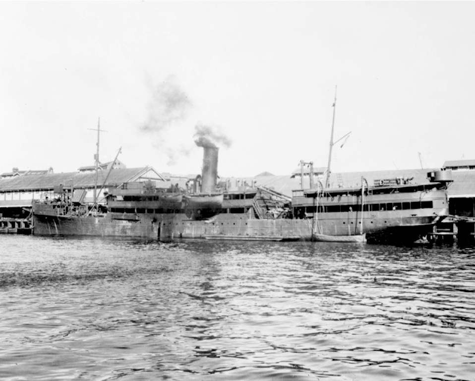 The steam ship Mactan (S-188) of the Small Ships Section, United States Army Services of Supply, Southwest Pacific Area (USA SOS SWPA), docked at an unidentified wharf. The Mactan was acquired from J Rocklyn, Sydney on 14 October 1942. Initially Australian ships were requisitioned and chartered by the Small Ships Section. Construction of ships for USA SOS SWPA commenced in Australia in 1942. Approximately 3000 vessels were constructed, including freighters, launches, tugs, towboats, lighters, rescue and salvage boats and a large number of barges. An additional 4000 lifeboats and dinghies were built. Around 3000 Australians enlisted in the Small Ships Section during the Second World War. They were not inducted members of the US Army, but were civilians attached to the Army. They were often too young, too old or physically ineligible to serve in the Australian armed forces.